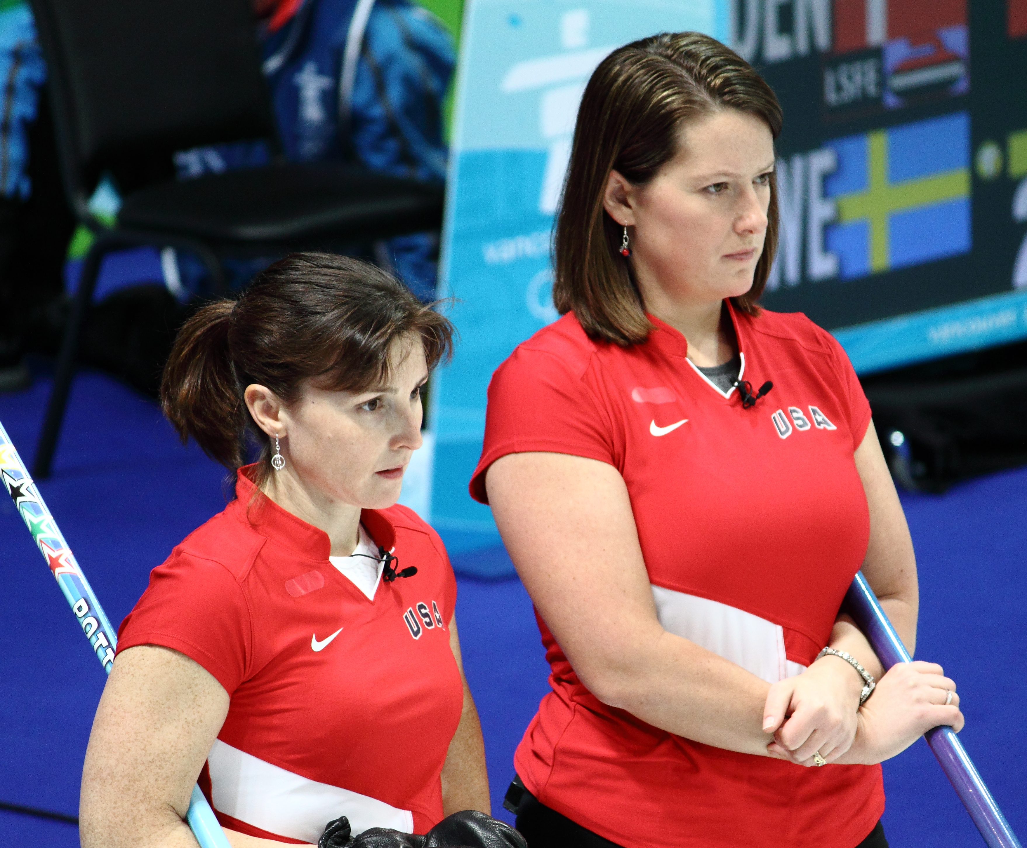 Allison Pottinger (left) and Debbie McCormick (right) 2010 Vancouver Olympic Games - Women's Curling - Preliminary from Vancouver Olympic Centre